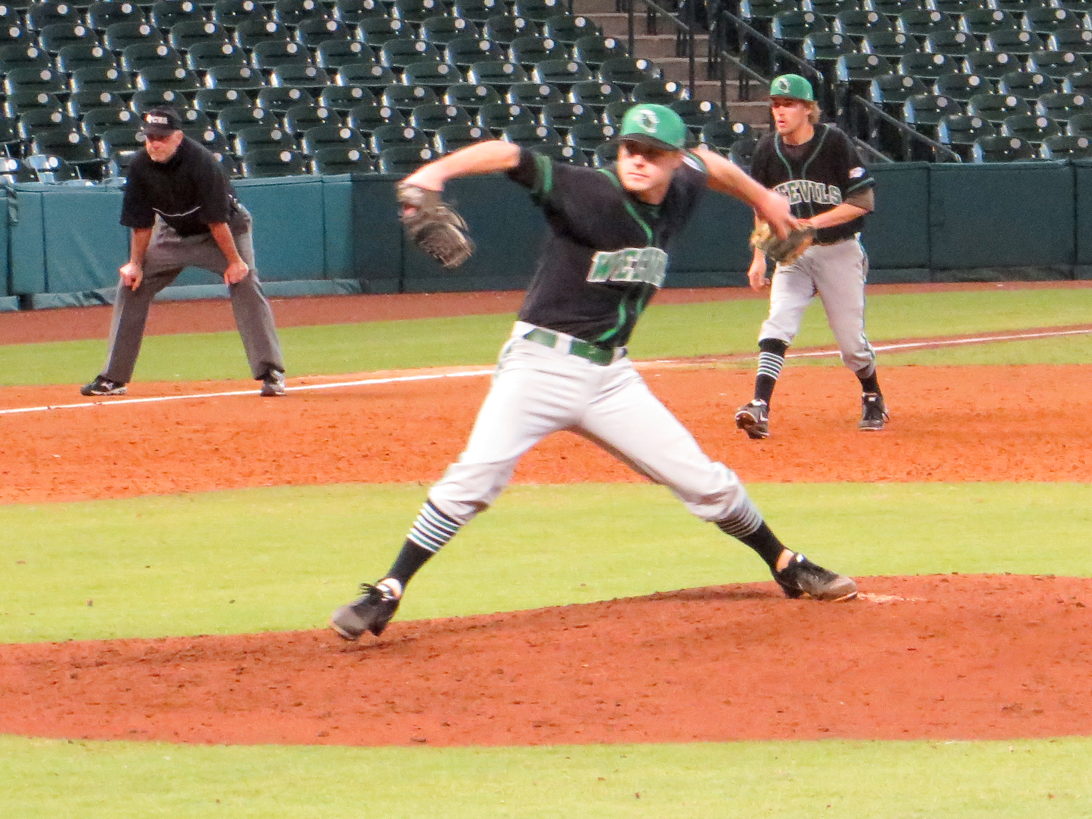 University of Arkansas at Monticello pitcher Jeff Harvill delivers a pitch during the 2014 Houston Winter Invitational at Minute Maid Park.